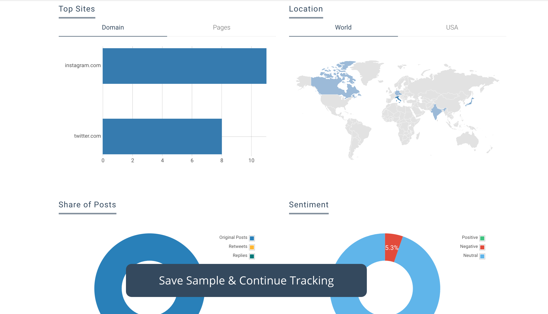 This is part of the data from Keyhole's official website